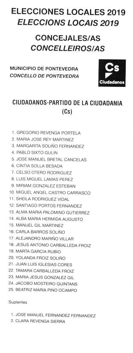 See title.